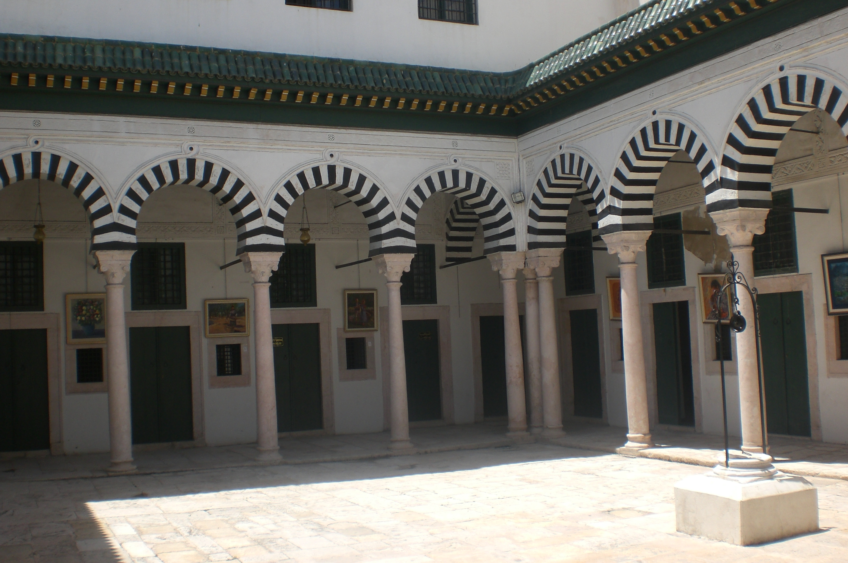 The interior of Medersa Slimaniya Tunis